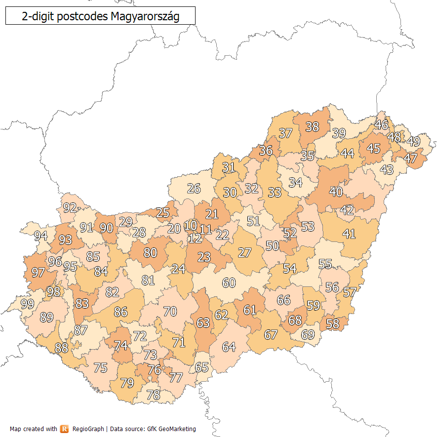 2-digit postcode areas Hungary (defined through the first two postcode digits).